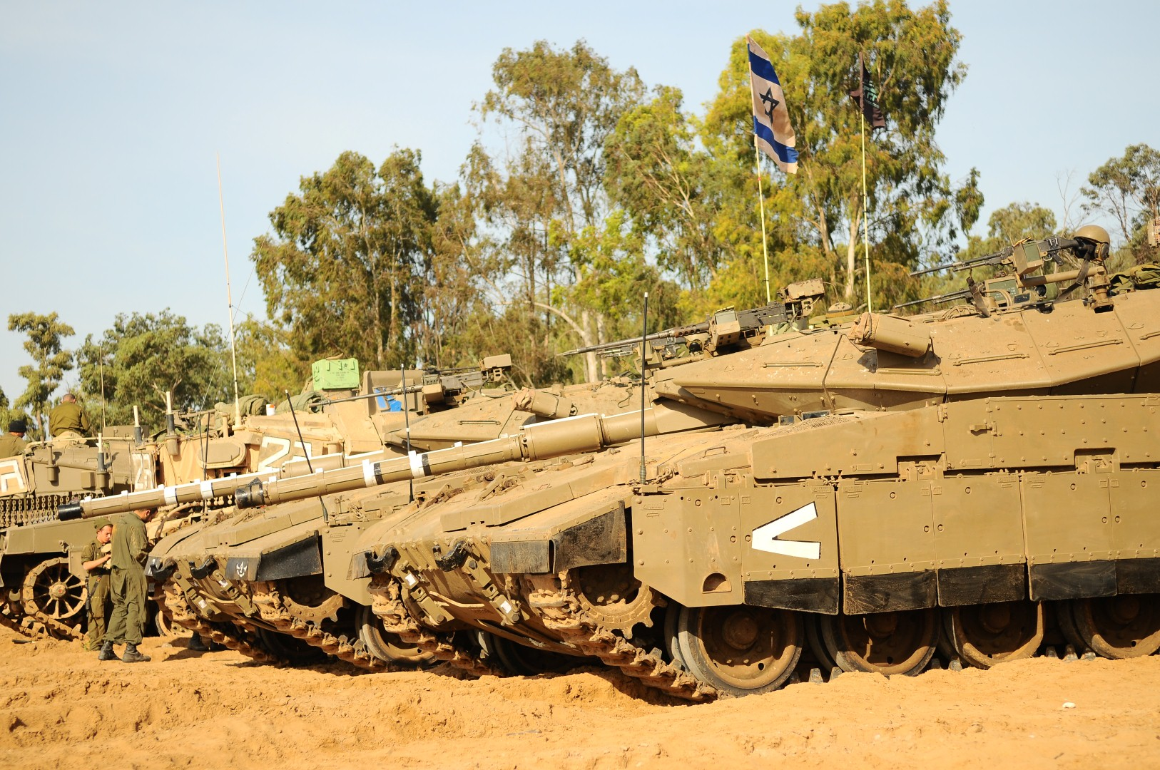 November 16, 2012 On November 14, the IDF launched Operation "Pillar of Defense", a widespread campaign against terror sites and operatives in the Gaza Strip. Over the past several days Hamas has fired hundreds of rockets at Israeli communities, threatening the lives of millions of civilians. Pictured: IDF forces in staging areas around the Gaza Strip, ready for deployment. In the last day the Israeli government has authorized the recruitment of 75,000 reserve soldiers. For more information, see our updating post. For more from the IDF